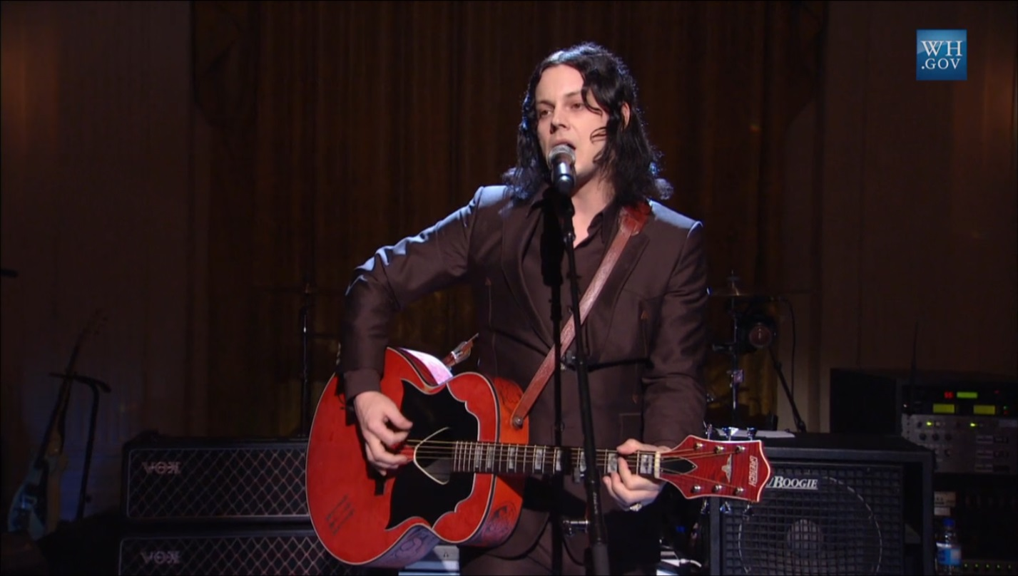 Jack White performs "Mother Nature's Son" in the East Room as part of a concert honoring Paul McCartney with the Library of Congress Gershwin Prize for Popular Song, Jun. 2, 2010.